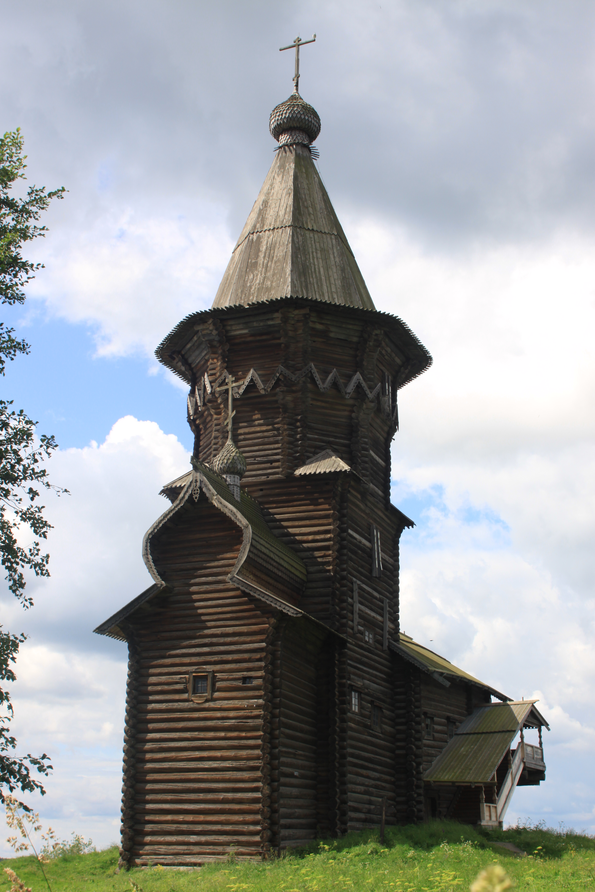 Dormition Church, Kondopoga — in the Karelia Region.